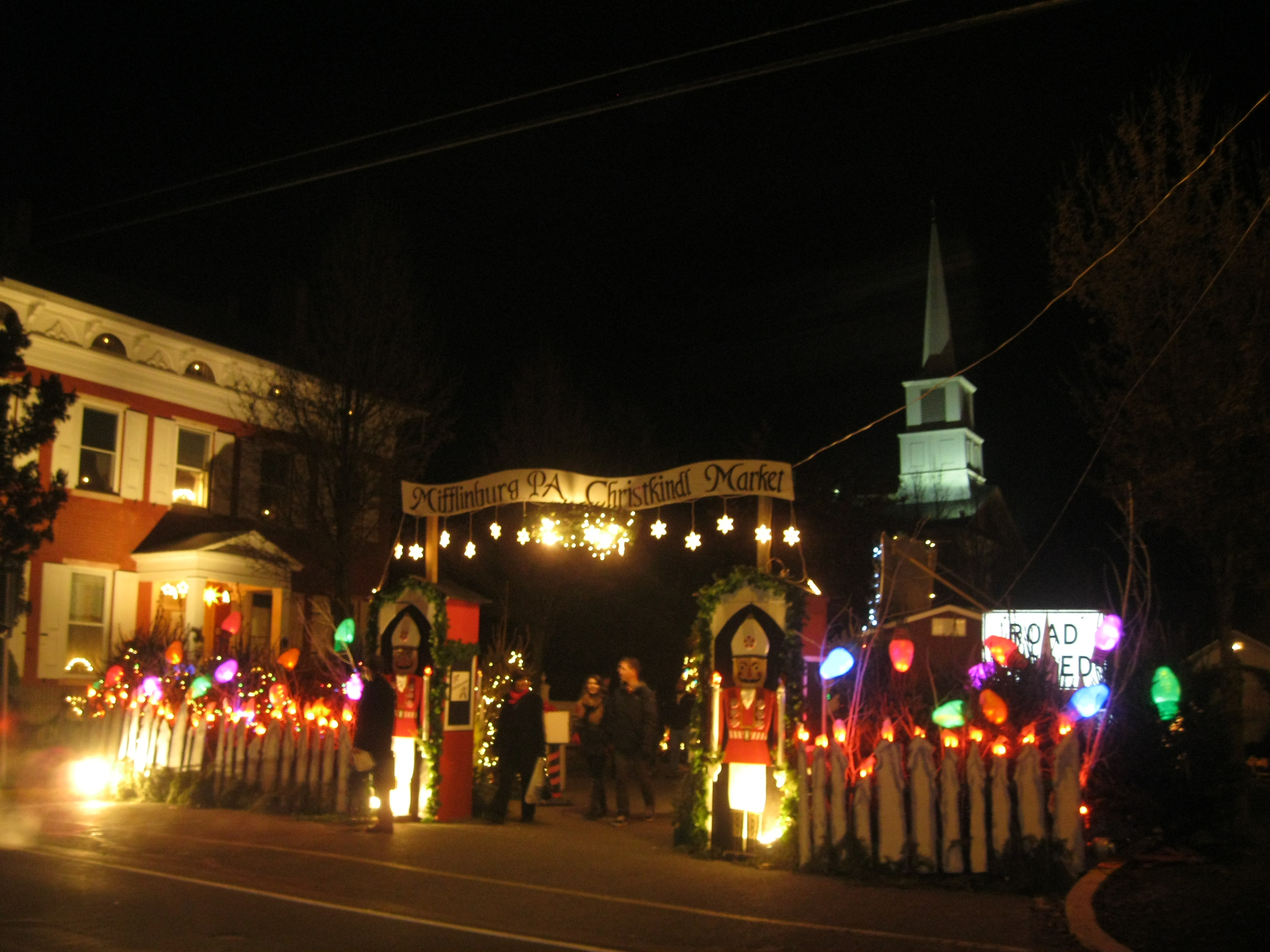 Christkindl market (Christmas market) in Mifflinburg, Pennsylvania in the United States of America. View is of Market Street with the steeple of St John's United Church of CHrist visible.